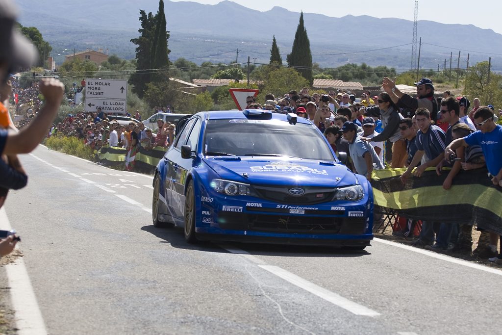 Brice Tirabassi driving his Subaru Impreza WRC2008 at the 2008 Rally Catalunya.